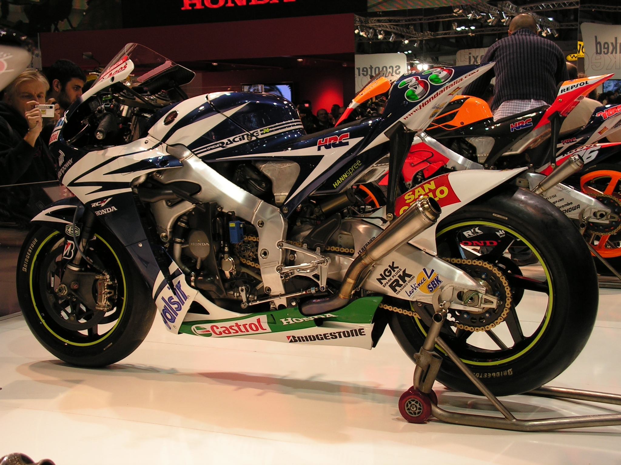 Honda RC212V used by Marco Melandri in the 2007 MotoGP - EICMA 2007, Milan (Italy)